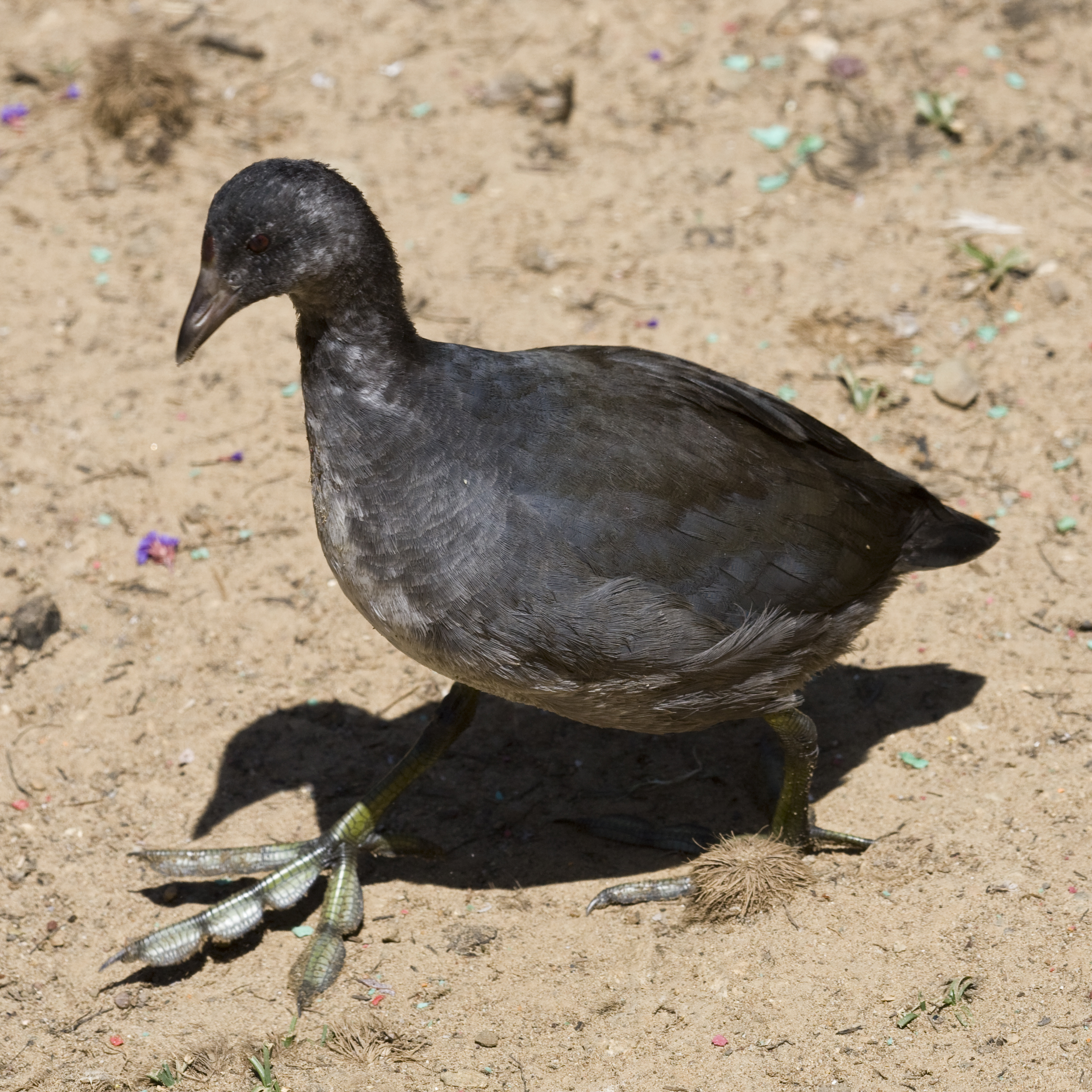 American Coot Chick (Fulica americana) in the Morro Bay, CA Cloisters City Park Aug. 12, 2007 - photo by Mike Baird See Joyce Cory's Jumpcut at to to see a cute slideshow involving this bird "American Coot (Fulica americana) development is observed, from 3 days after hatching through the 15 week."